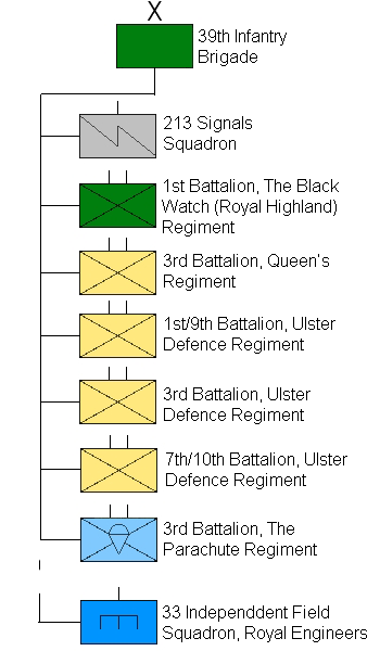 39th Infantry Brigade (United Kingdom)